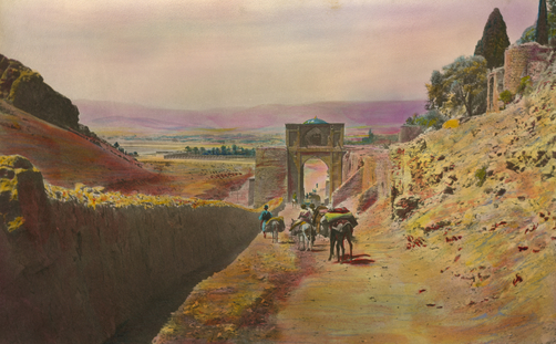 Qur'an Gate, Shiraz, Iran